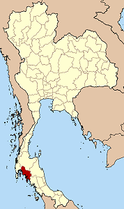 Map of Thailand highlighting Krabi province